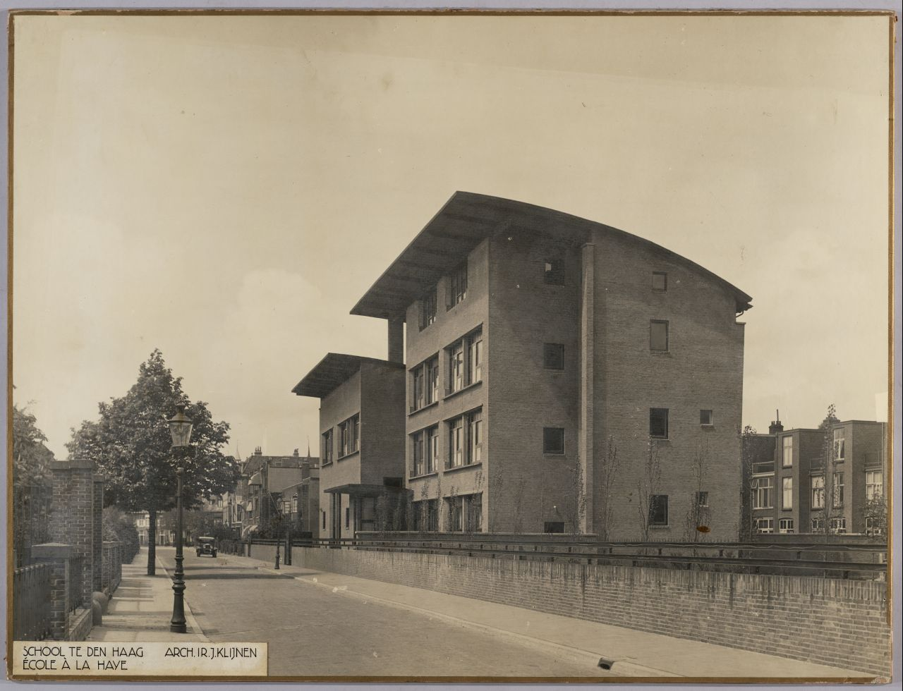 Schoolgebouw jongensschool, Koningin Sophiestraat, Den Haag, 1930. Architect: J. Klijnen Fotograaf: onbekend. Collectie NAi / TENT_n78 URL van deze afbeelding: Meer foto's uit deze collectie kunt u bekijken in de Collectiedatabase van het NAi. Niet van alle gebouwen en interieurs zijn alle gegevens bekend. Heeft u meer informatie of weet u het adres van een gebouw? Laat dan een reactie achter (als u ingelogd bent bij Flickr) of stuur een mailtje naar: Al deze foto's zijn gemaakt in de eerste helft van de twintigste eeuw. Wij zijn benieuwd hoe deze gebouwen er vandaag de dag uitzien. Heeft u recente foto's van deze gebouwen of locaties, voeg ze dan toe als commentaar. U kunt een eigen Flickr-foto toevoegen door de URL ervan tussen vierkante haken in het commentaarveld te plakken. School building boy's school, Koningin Sophiestraat, Den Haag, 1930. Architect: J. Klijnen Photographer: unknown. NAI Collection / TENT_n78 Persistent URL: For more photographs from this collection, please visit the NAI Collection Database You can help us gain more knowledge on the content of our collection by adding a comment with information. If you do not wish to log in, you can write an e-mail to: All these pictures are taken in the first half of the twentieth century. We are curious to learn how these buildings look like today. If you have recently taken photographs of these buildings or locations, please add them to your comment. If you'd like to include a Flickr photo, simply copy and paste its URL between square brackets in the commentary-field.